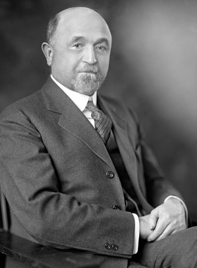 William Humphrey, US Representative from Washington